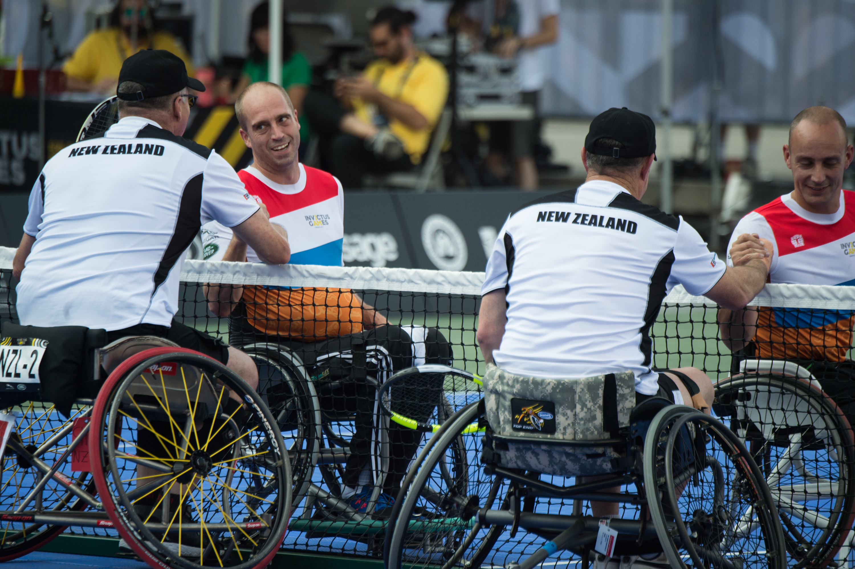 Members of Team New Zealand congratulate Team Netherlands on their win after a Wheelchair Tennis match of the 2017 Invictus Games at the Nathan Phillips Square in Toronto, Canada, Sept. 24, 2017. More than 550 wounded, ill and injured servicemen and women from 17 allied nations are expected to compete. (DoD Photo by U.S. Army Sgt. James K. McCann)